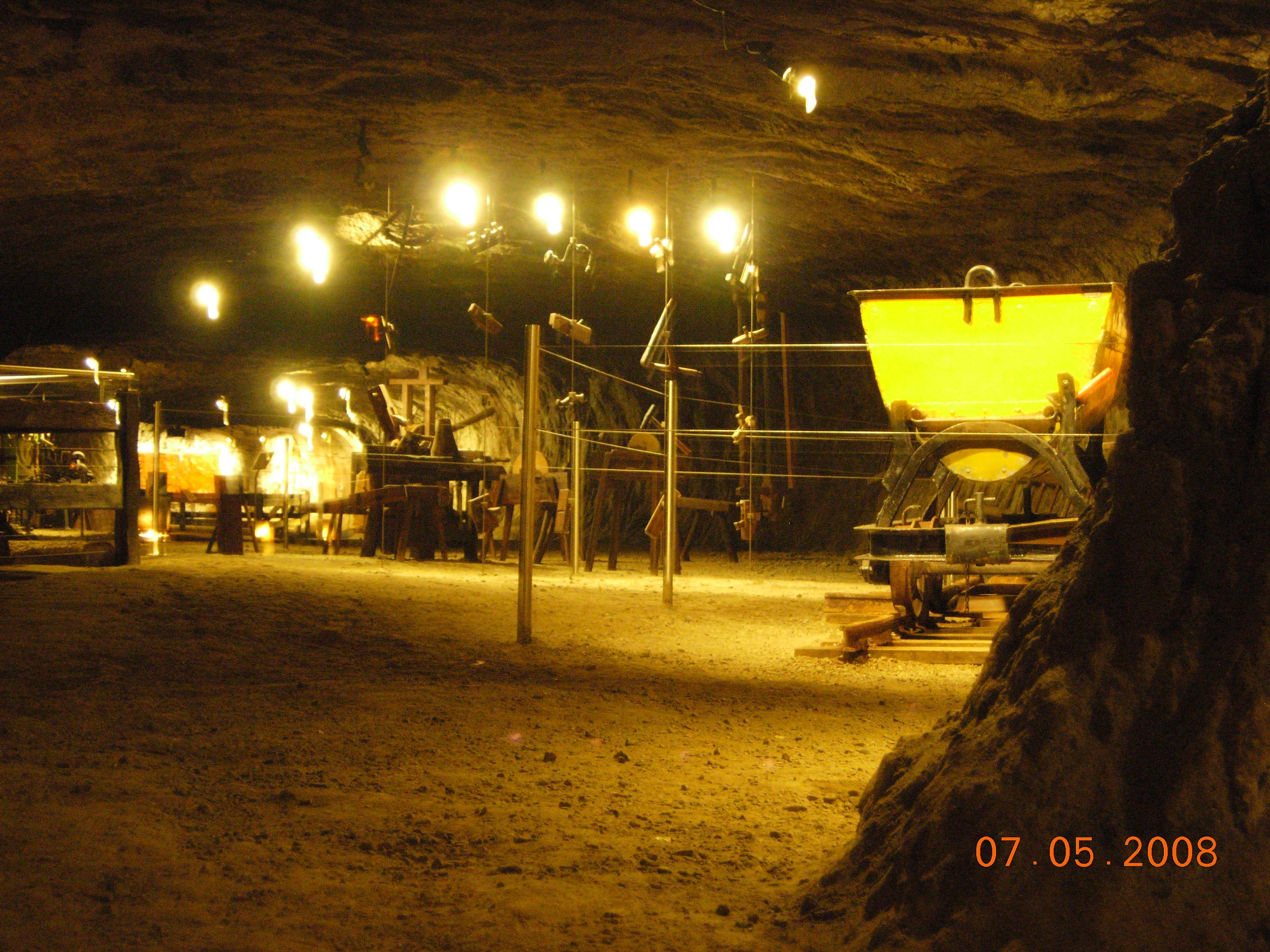 BEX salt mines